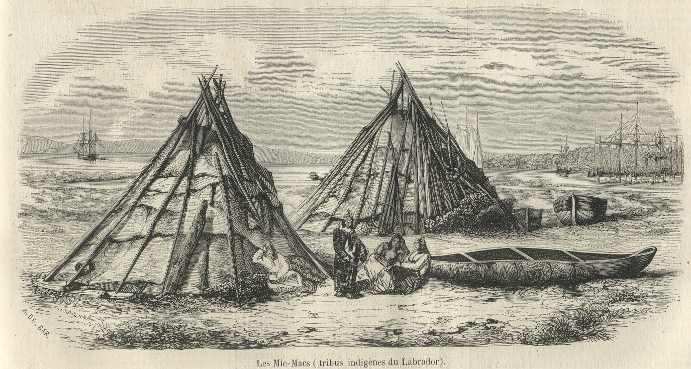 Les Mic-Macs (tribus indigène du Labrador): Illustration published as part of the article Tribu des Mic-Macs, Mac Vernoll, in Le Monde illustré, n°53, 17/04/1858. See full text Tribu des Mic-Macs. This drawing is most likely derivated from this photo Image:Micmac camp.jpg.